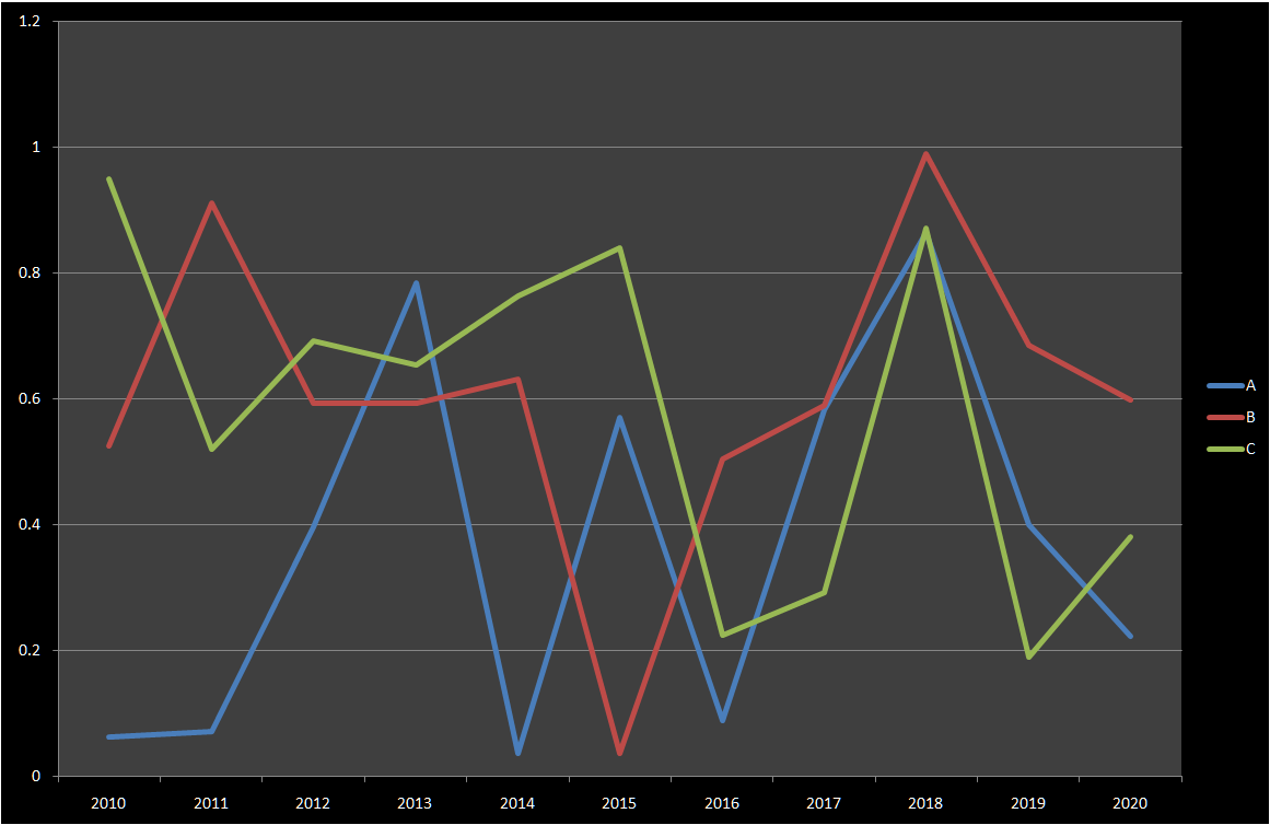 A run chart.